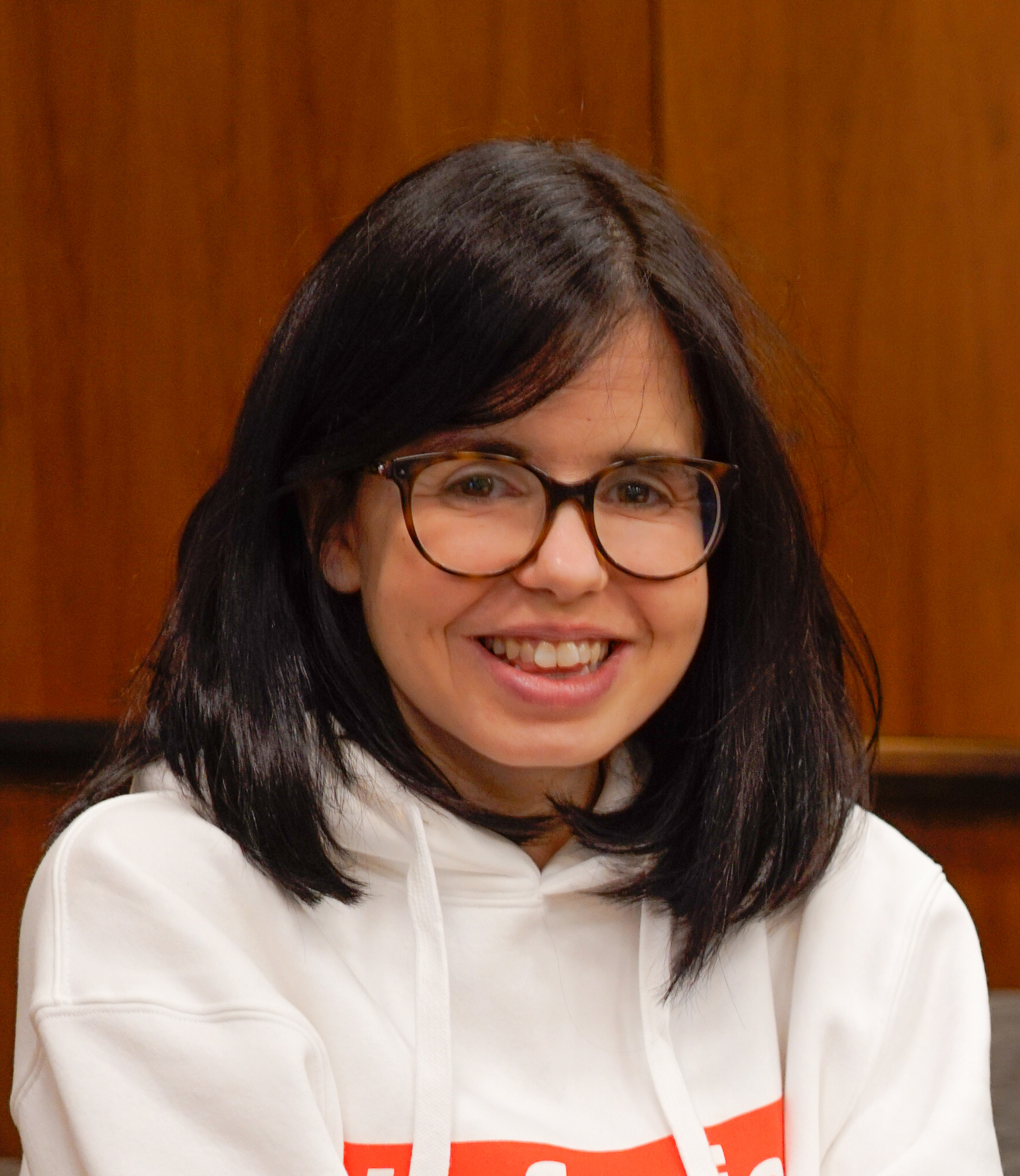 Women & Minorities in STEM edit-a-thon at the American Physical Society March Meeting 2019. APS invited Jess Wade & Wiki Education to help run the event.